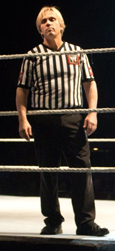 Charles Robinson refeering at a WWE SmackDown house show. Taken January 7, 2012 during in Montgomery, Alabama.